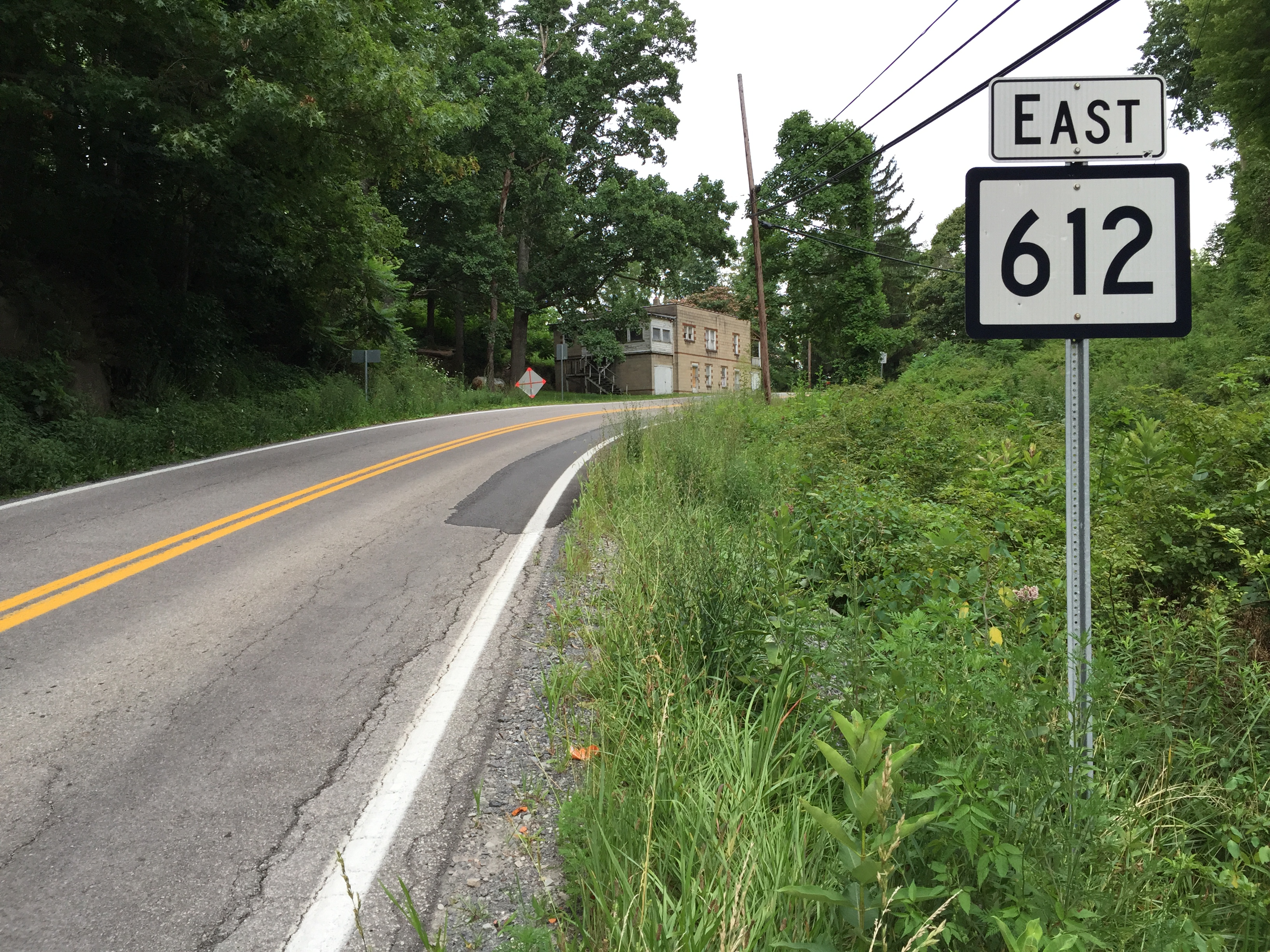 View east along West Virginia State Route 612 (Okey L Patterson Road) at Toney Fork Road (Fayette County Route 15/2) in Carlisle, Fayette County, West Virginia